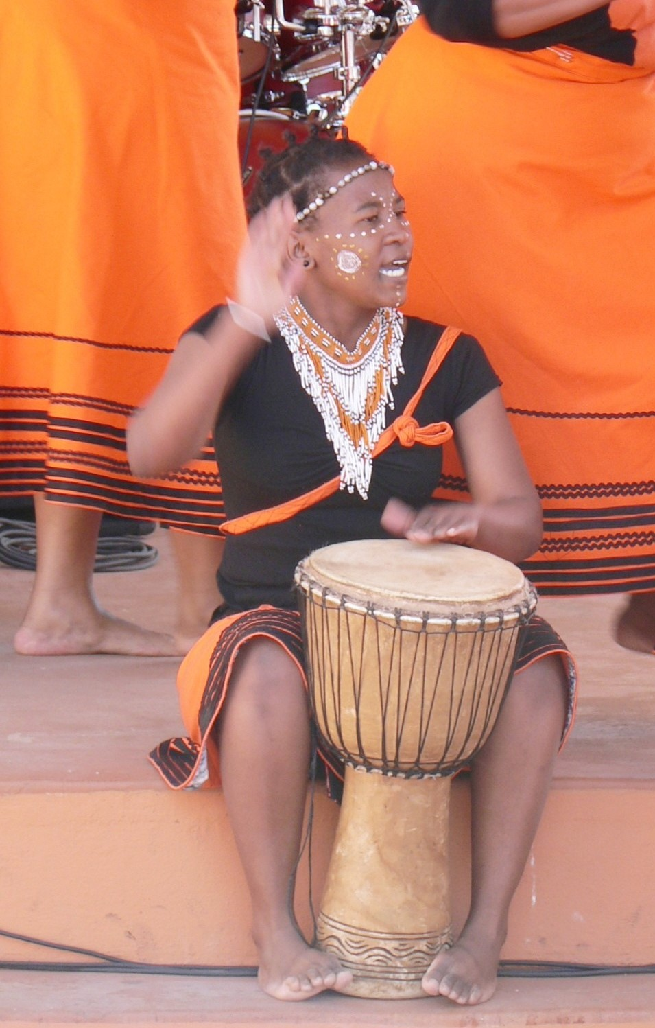 Drummer for Xhosa female dance troupe performing at national Heritage Day celebration at Mayibuye Centre, Galeshewe, Kimberley, 24 September 2008. This is an image of music and dance from South Africa